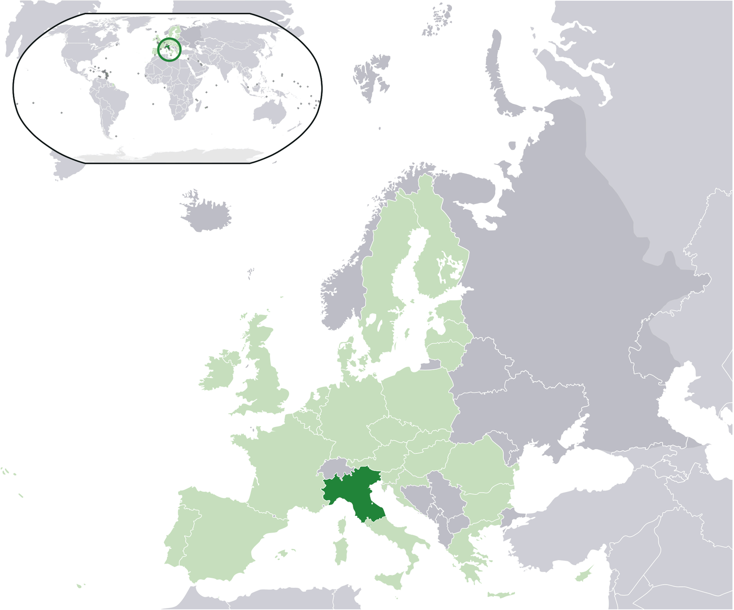 Map of the proposed state of Padania (advocated by Northern League)